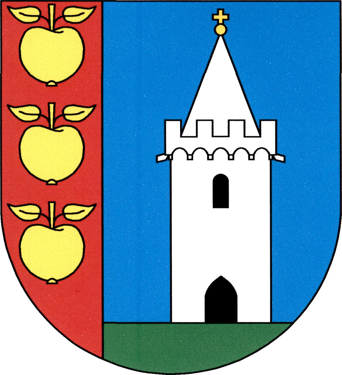 Municipal coat of arms of Stolany village, Chrudim District, Czech Republic.